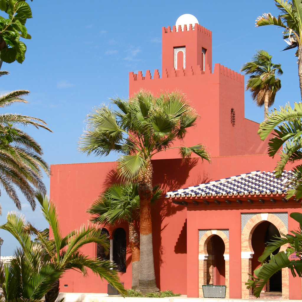 Bil-bil Castle, in Benalmádena, Málaga, Spain